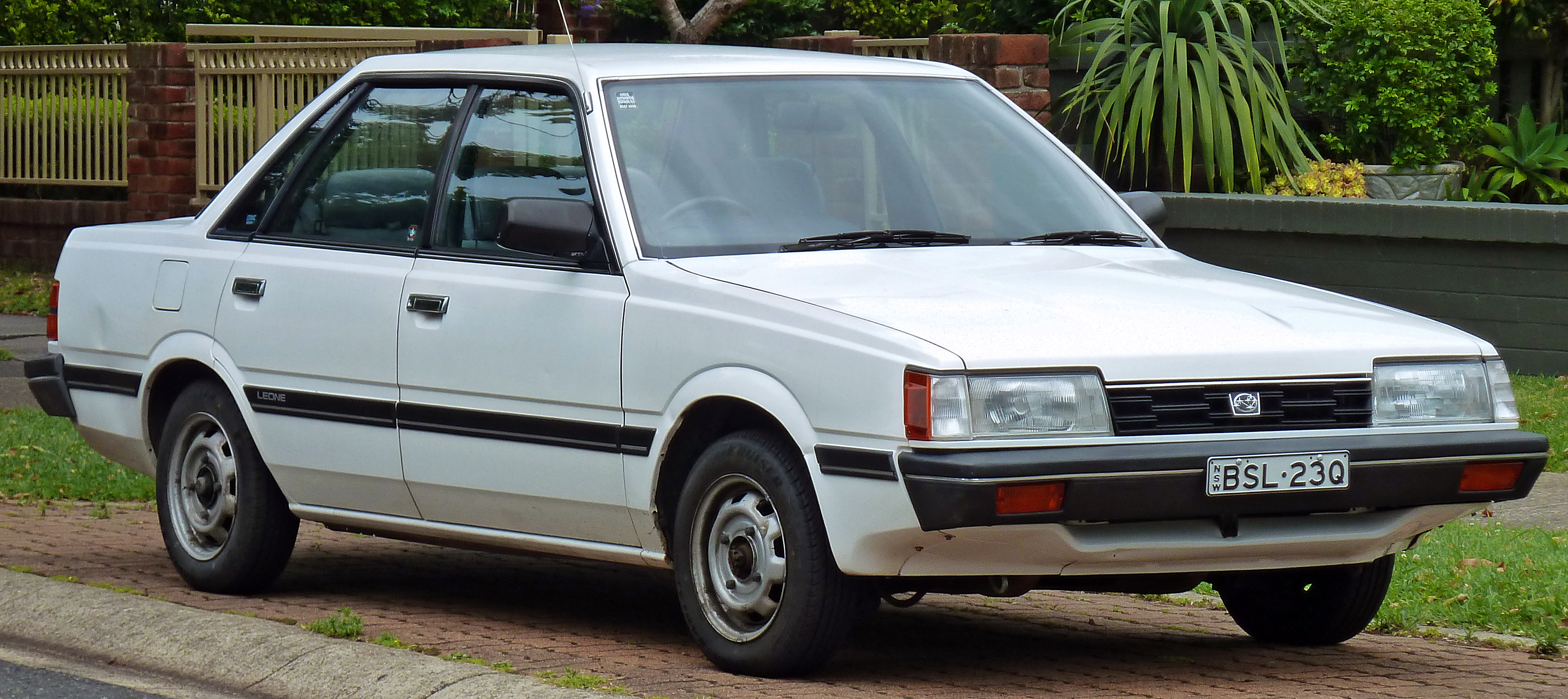 1984–1986 Subaru Leone Deluxe sedan. Photographed in Sans Souci, New South Wales, Australia.